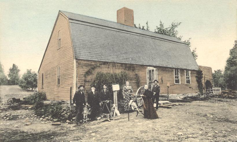 Abraham Sanderson House, Lunenburg, Massachusetts. It was built c. 1730s.